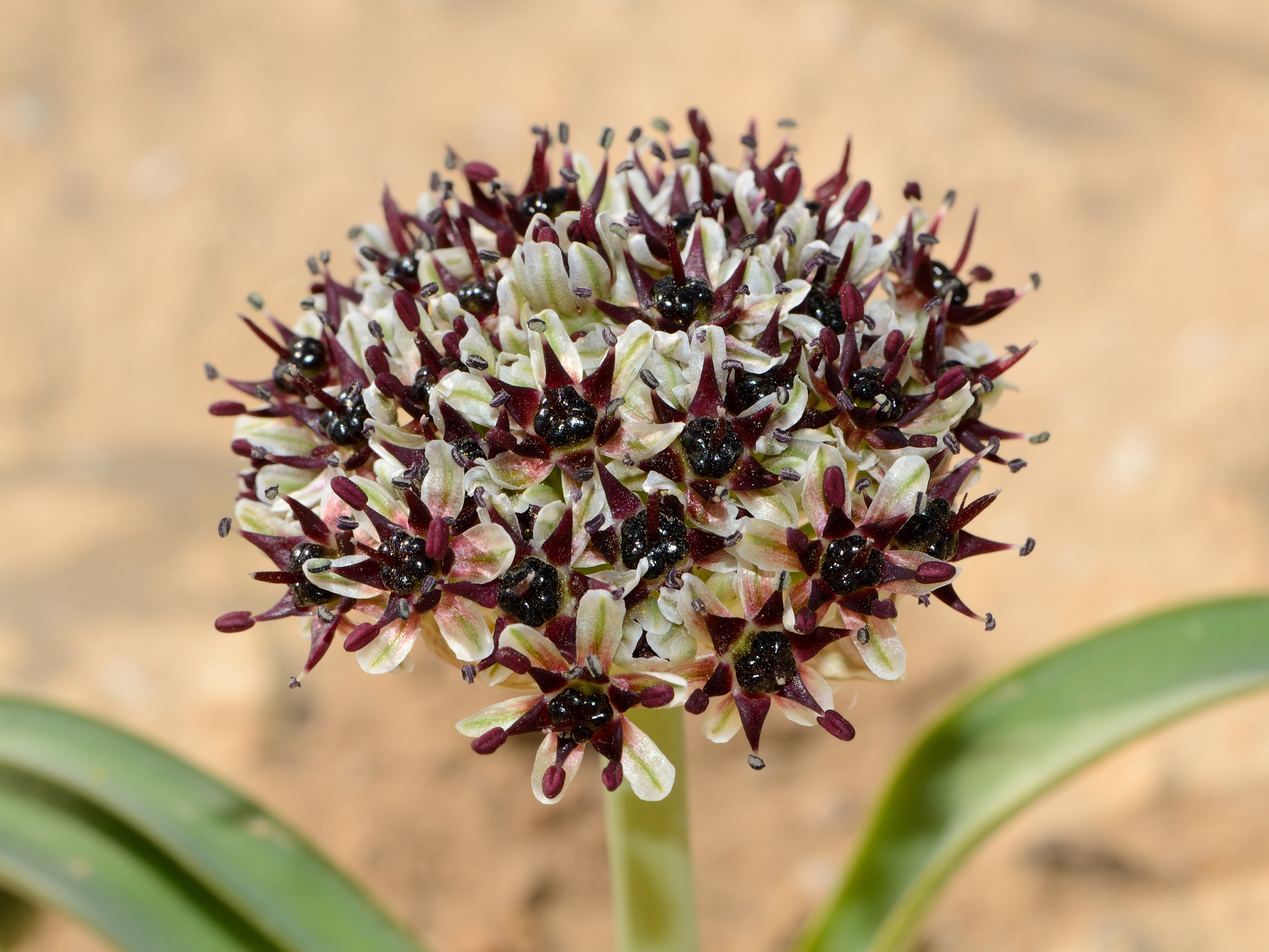 Allium rothii Zucc., Arad, Israel, March 26, 2012.